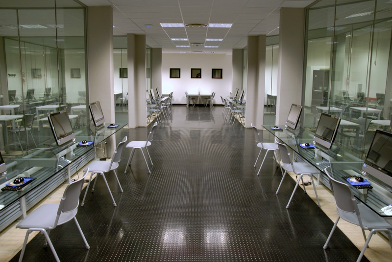 Mediclub at Mediterranea University of Reggio Calabria